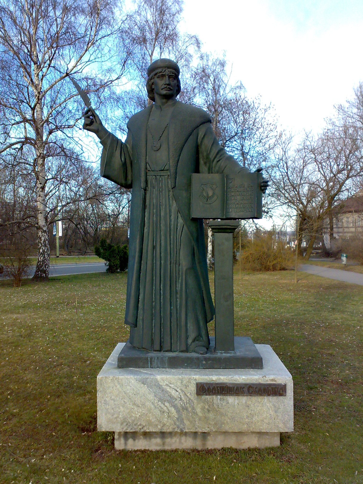 A monument to Francysk Skaryna (Francisk Skorina, Francišak Skaryna) in Prague-Hradčany, Jelení street.